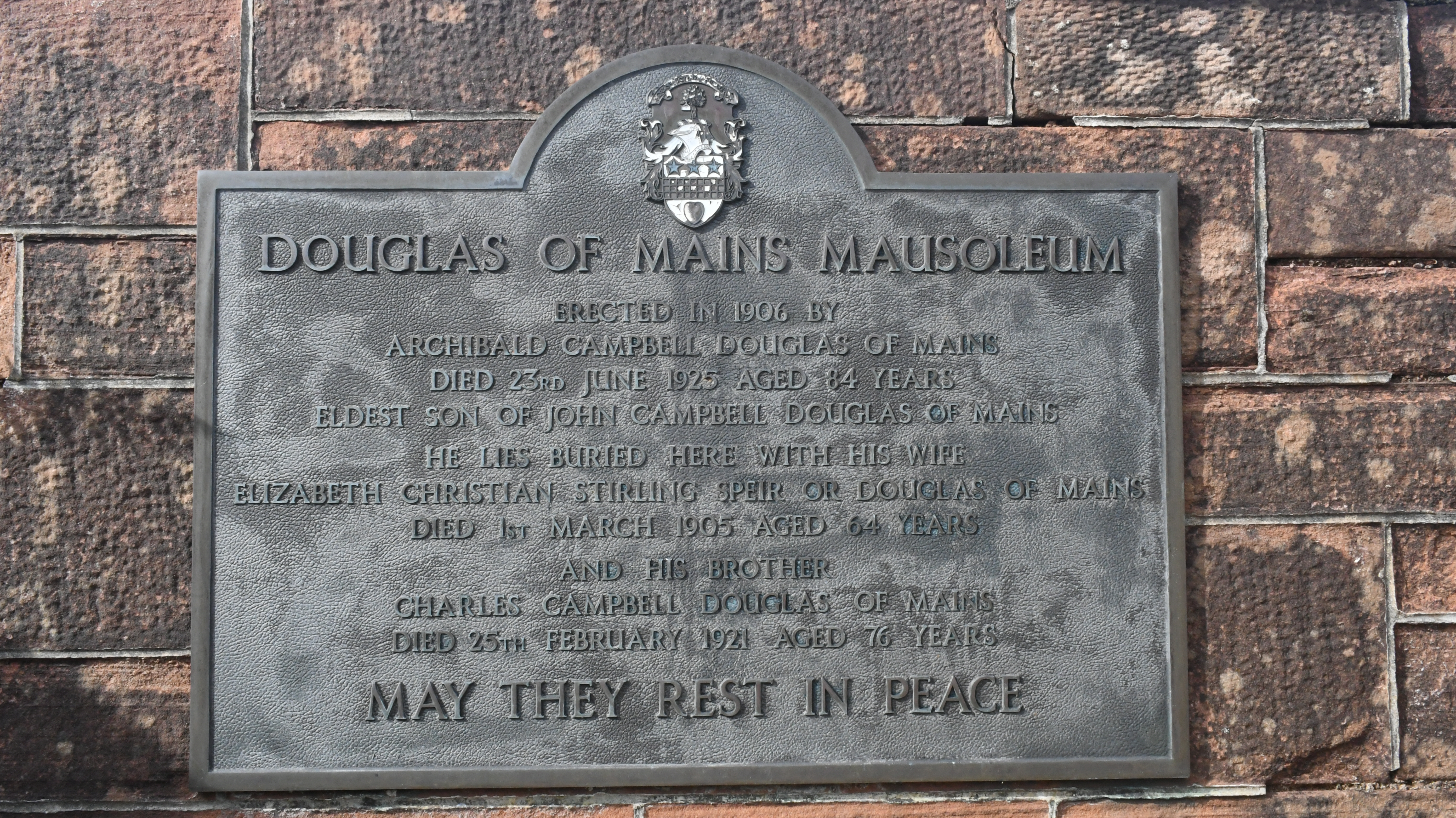 Douglas Of Mains Mausoleum Plaque, New Kilpatrick Cemetary, Bearsden, detailing some members of the family.